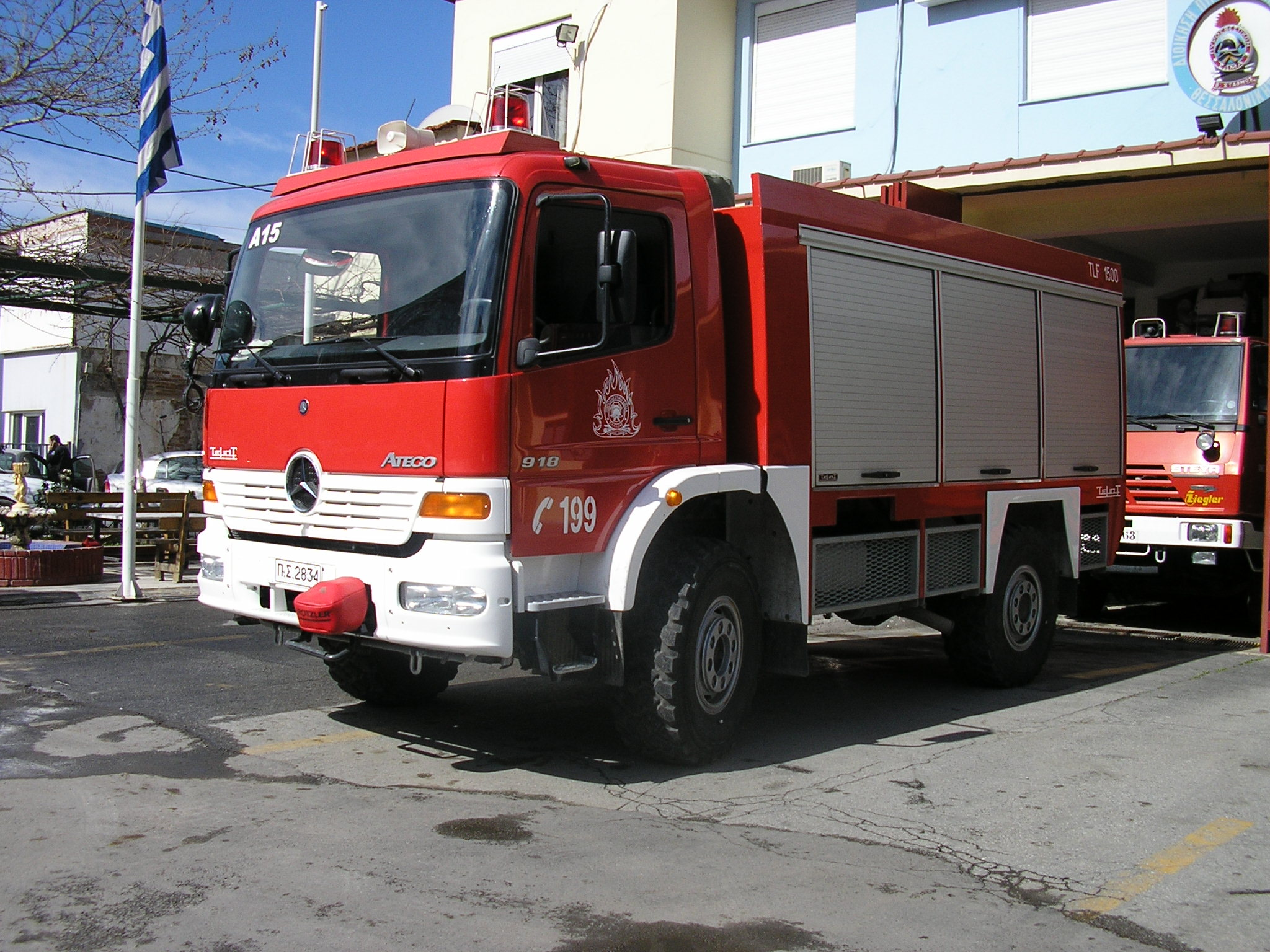 Vehicle of the Hellenic Fire Service.